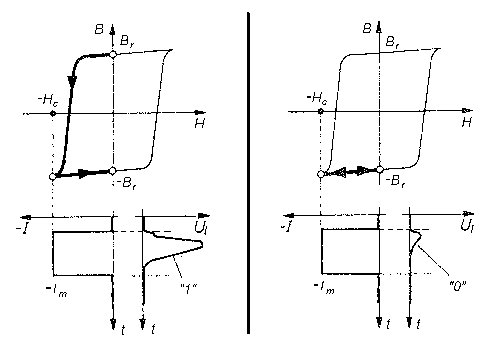 Diagram of the magnetic hysteresis curve for a magnetic memory core during a read operation. Sense line current pulse is high ("1") or low ("0") depending on original magnetization state of the core.